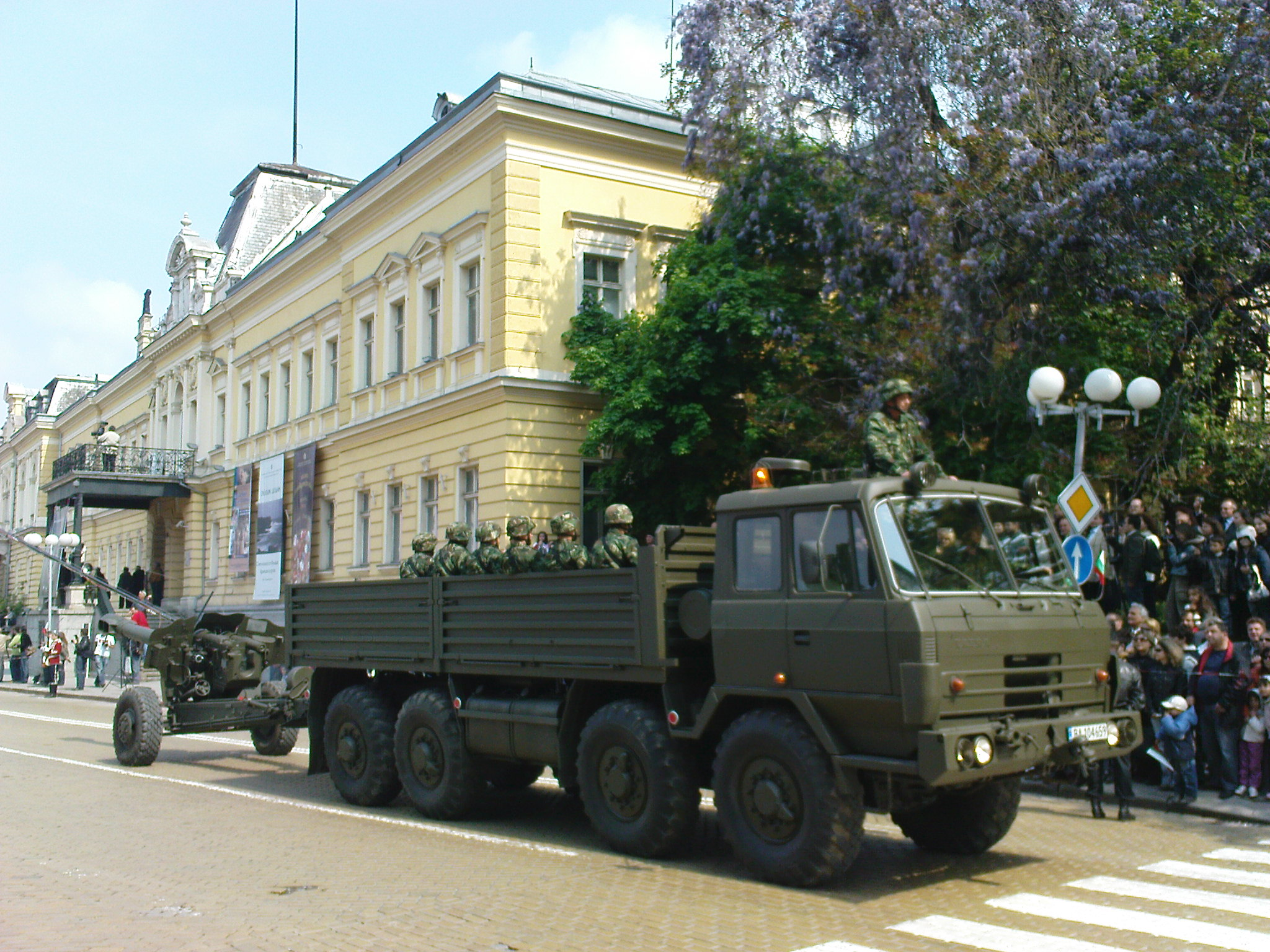 A towed D-20 152 mm gun with crew, Army day parade in Sofia